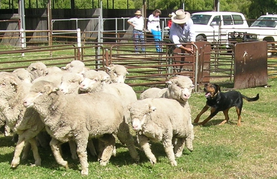 A Huntaway dog working Merino wethers in a yard dog trial at the Walcha Show.